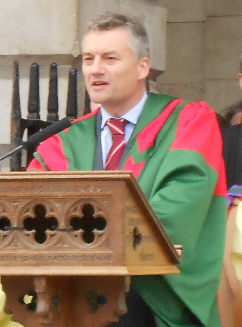 Patrick Prendergast announcing updatedFellow and Scholars at Trinity College Dublin on Trinity Monday 2013